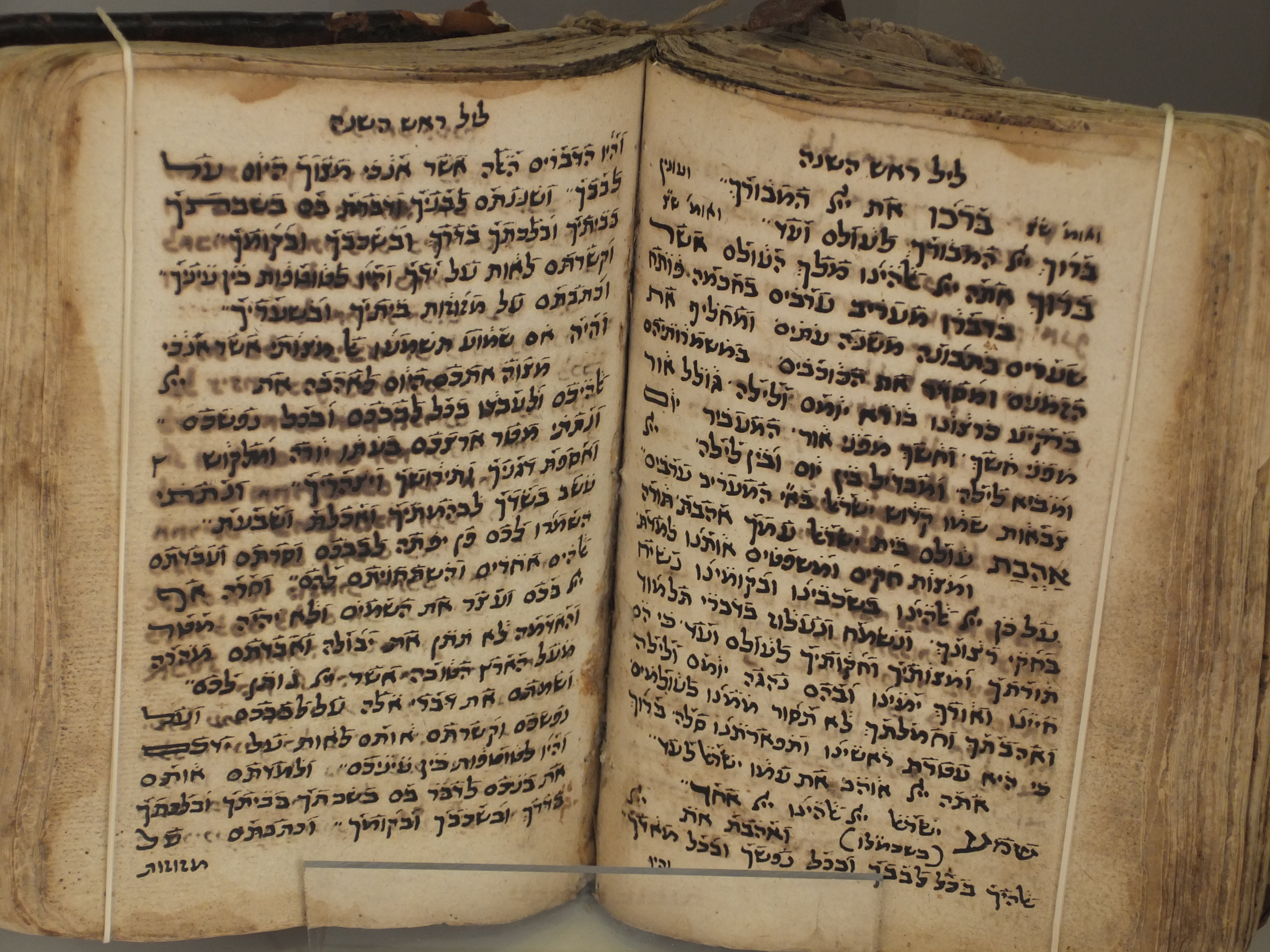 Handwritten manuscript of Prayer Book (Siddur) used on Rosh Hashanah